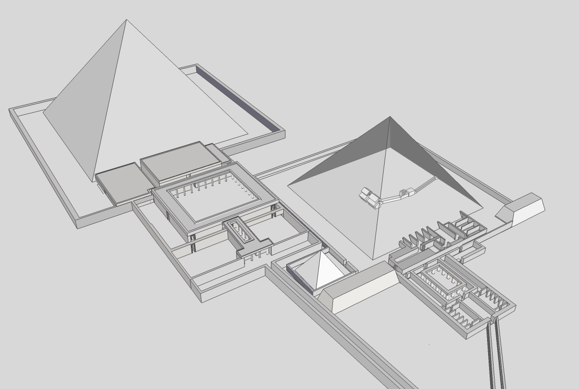 Close up of the pyramid complexes of Nerferirakre Kakai and Nyuserre Ini